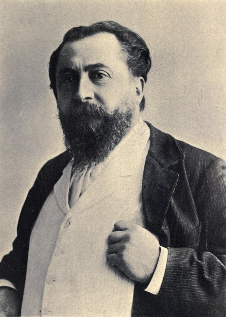 Portrait of Catulle Mendès